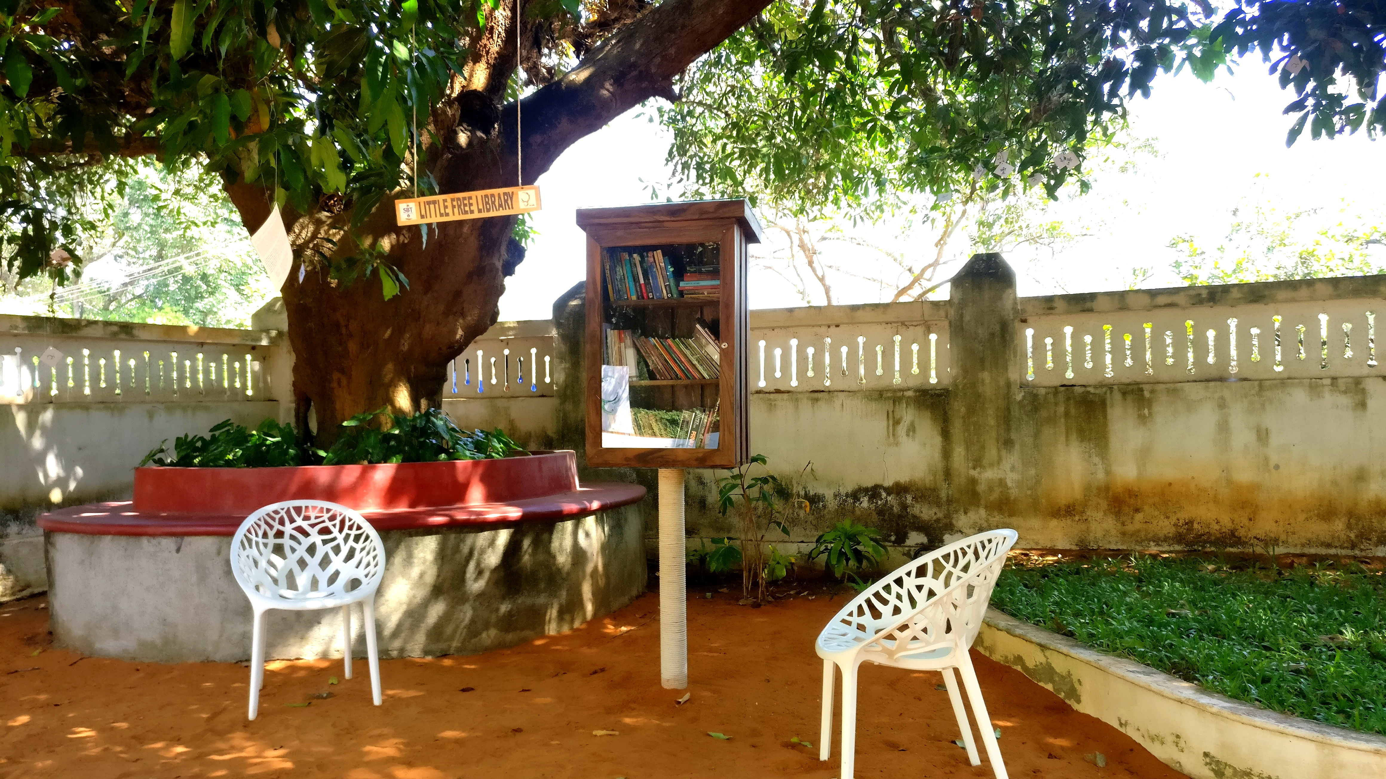 The first Little Free Library in Kerala is set up at '8 Point Art Cafe' in Kollam city